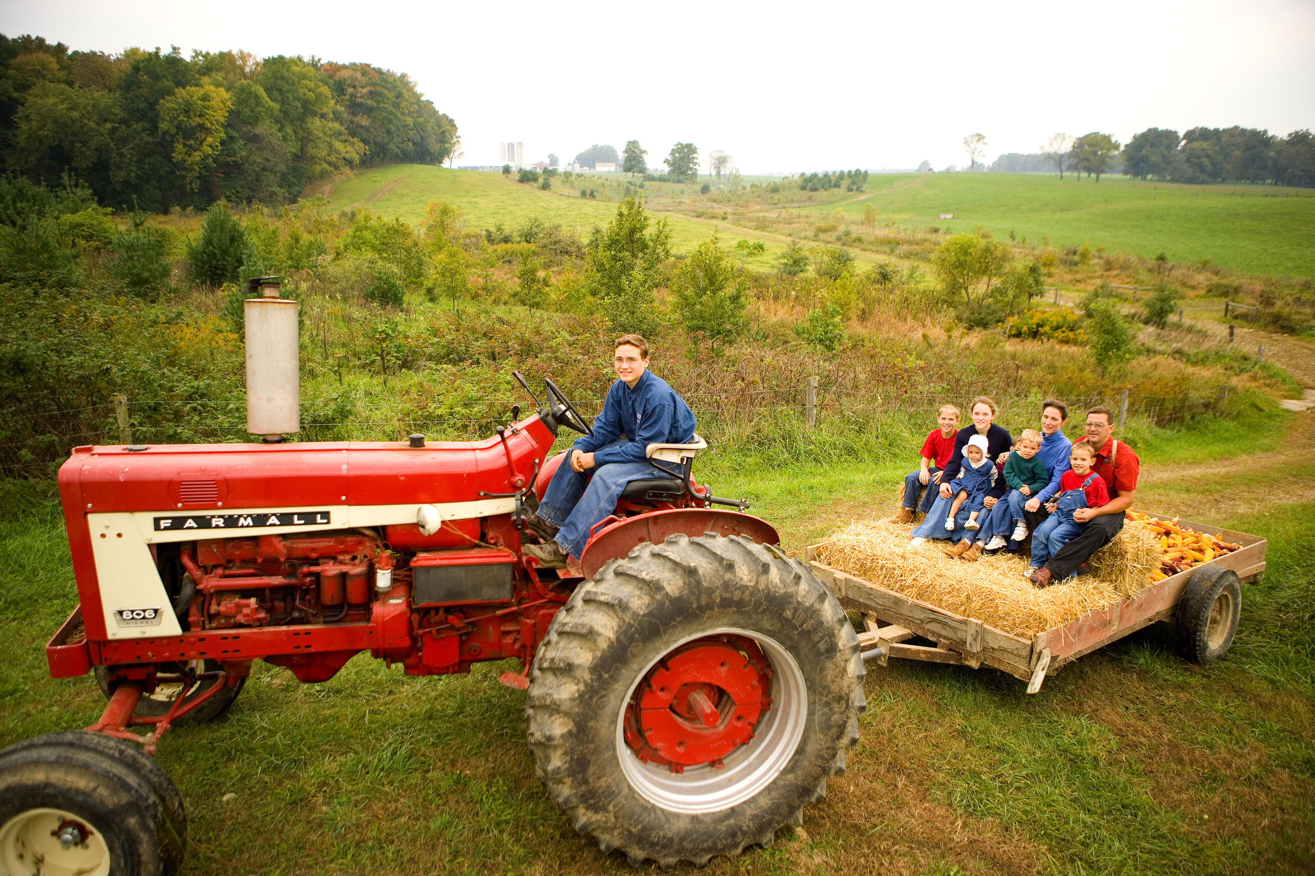 Family enjoying hayride on their organic farm in northeast Ohio.